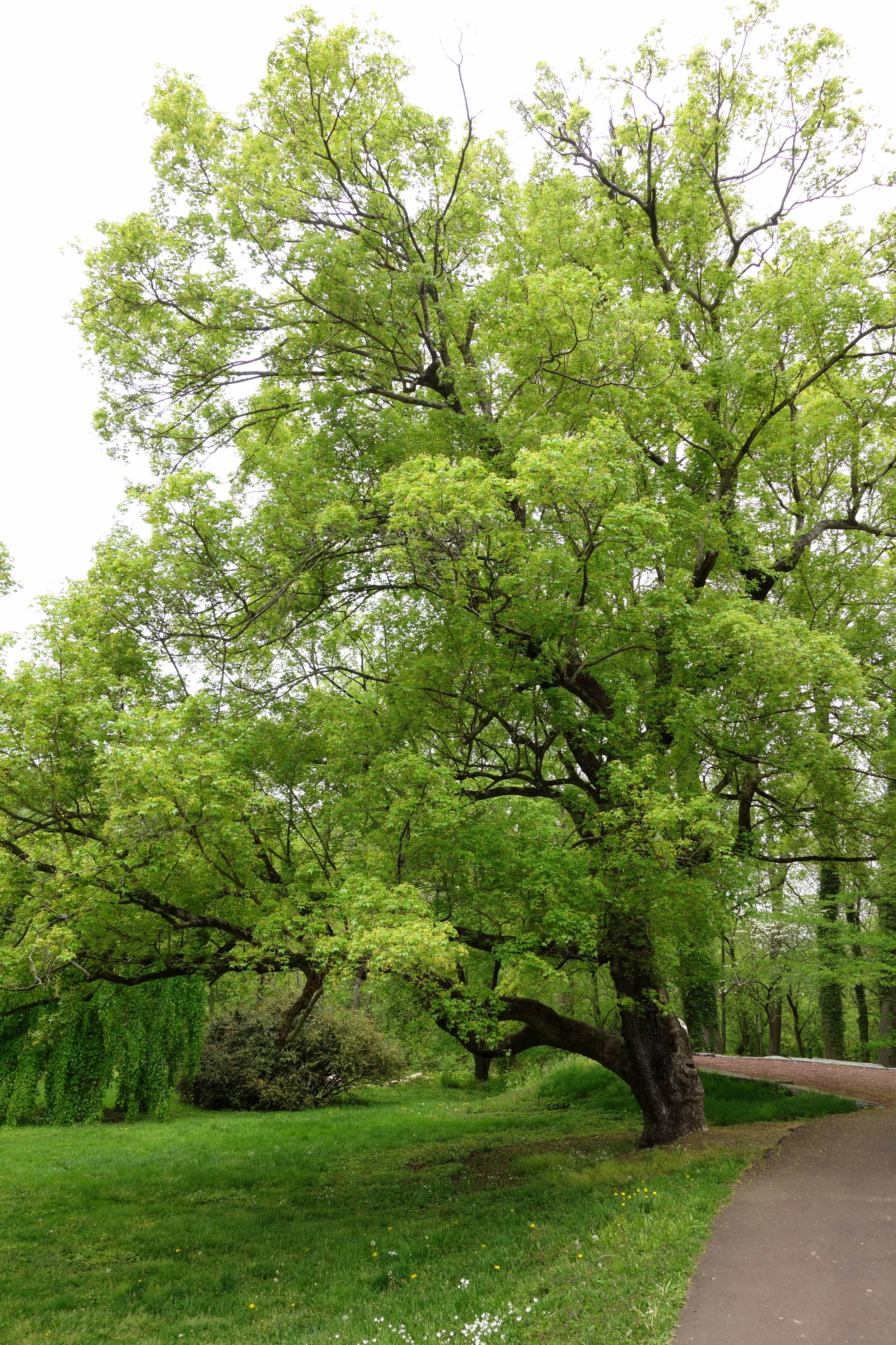 Botanical specimen in the Morris Arboretum, 100 East Northwestern Avenue, Chestnut Hill, Philadelphia, Pennsylvania, USA.